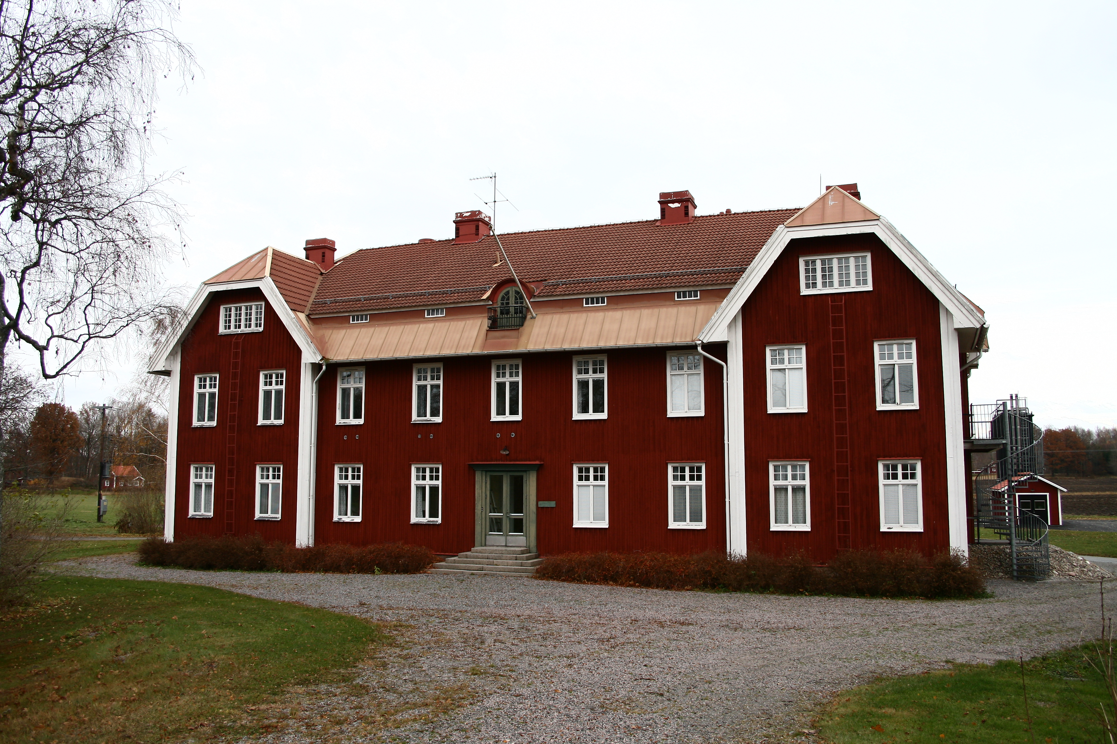 Kävesta folk high school, boarding house.